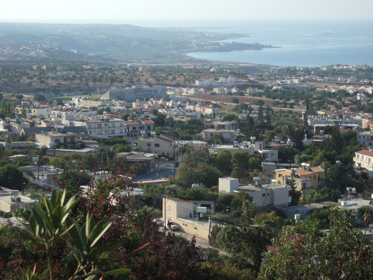 Paphos, CiproLooking down